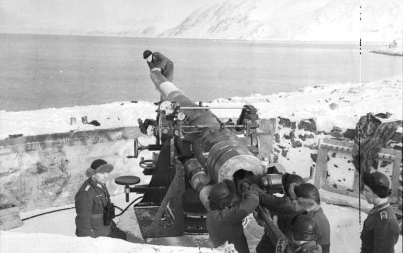 Information added by Wikimedia users.